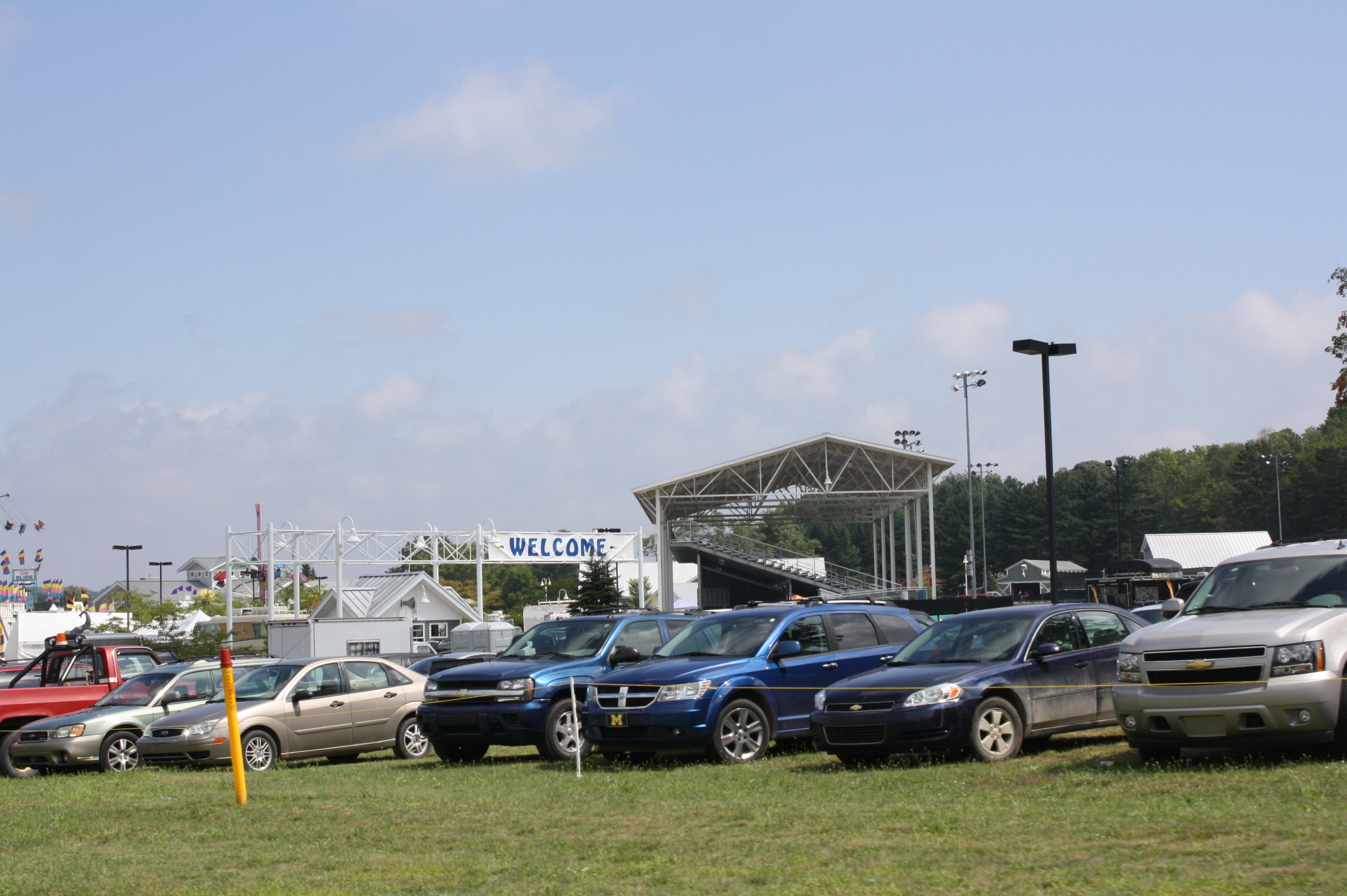 Cars parked at the fair for Emmet County, Michigan.